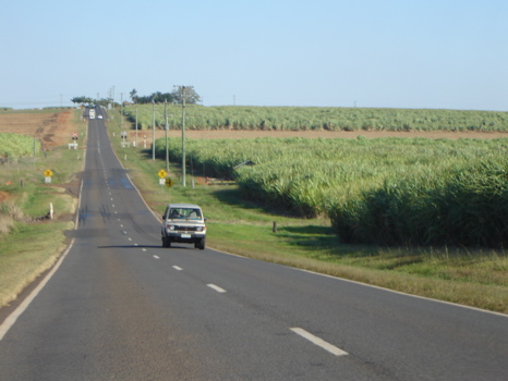 Canefields just south of Childers. Photo taken by Frances76.